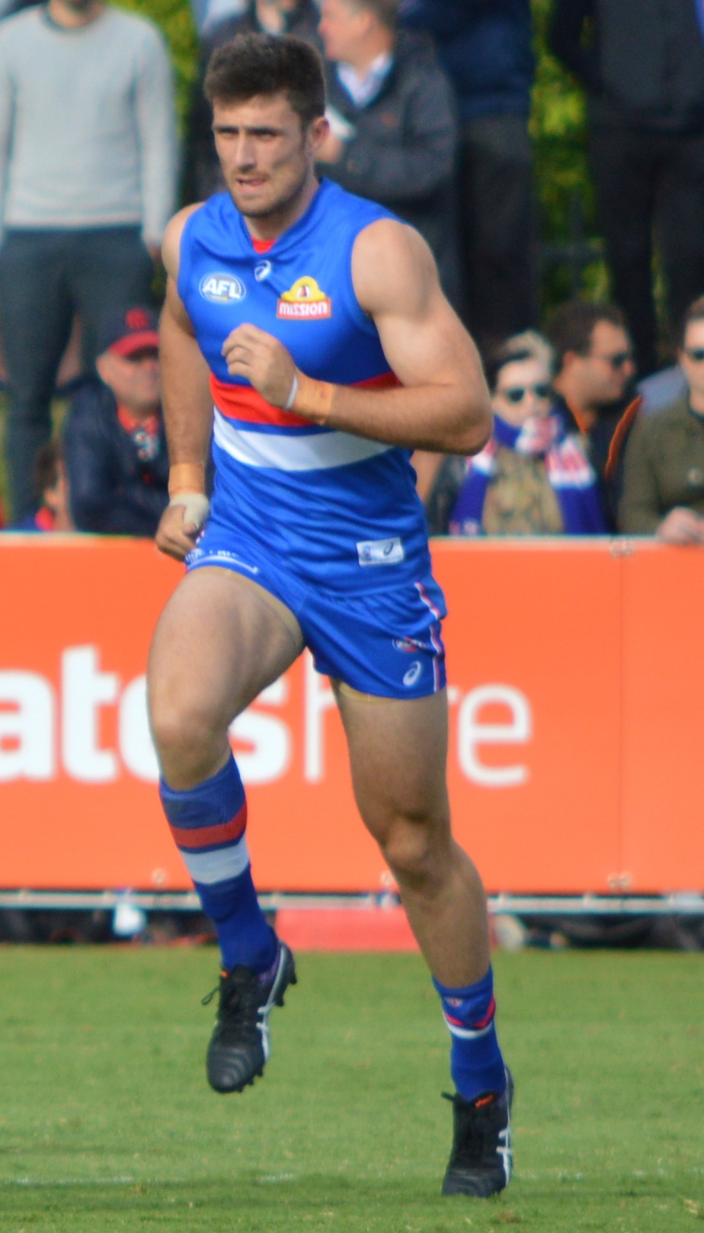 Tom Campbell warming up prior to a pre-season match in February 2017